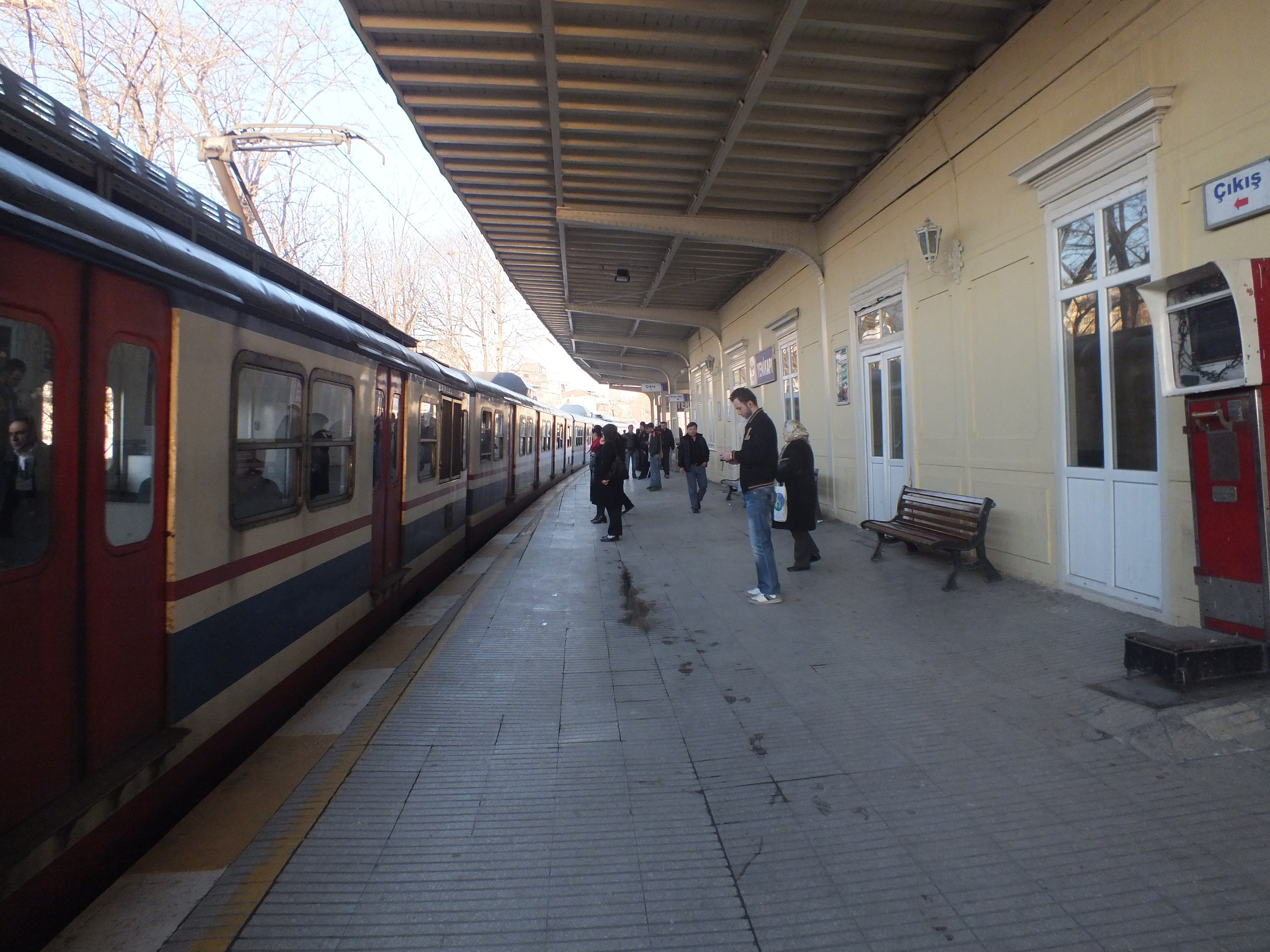 A commuter train at Yenikapi station.